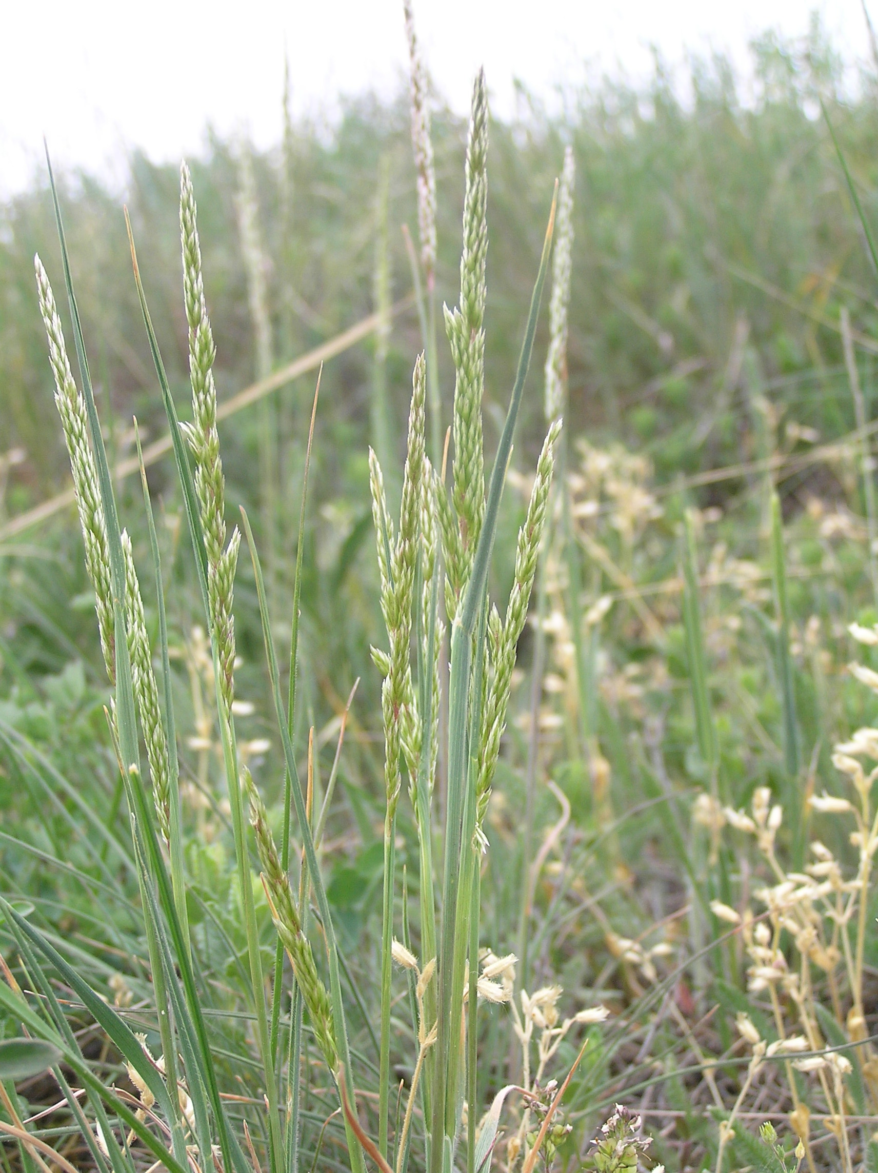 Koeleria macrantha, the hill Šibeničník near Mikulov, Southern Moravia, Czech Republic